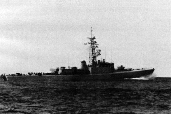 The Royal Canadian Navy Restigouche-class destroyer HMCS Restigouche (DDE 257) underway in 1983.